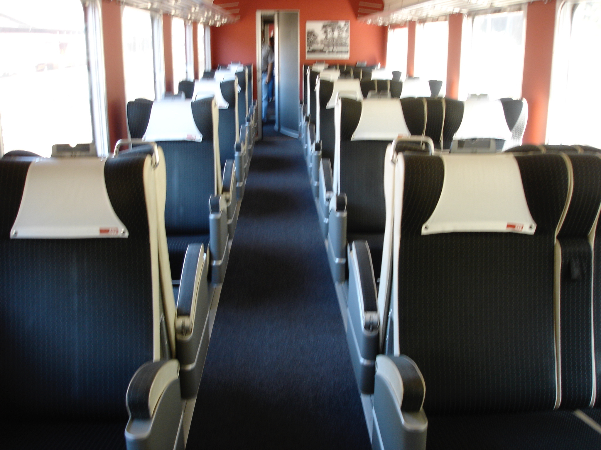 First class interior of the preserved SBB CFF FFS RAe TEE II 1053; the seats are still the same as in the SBB CFF FFS RABe EC trains of the late Eighties.